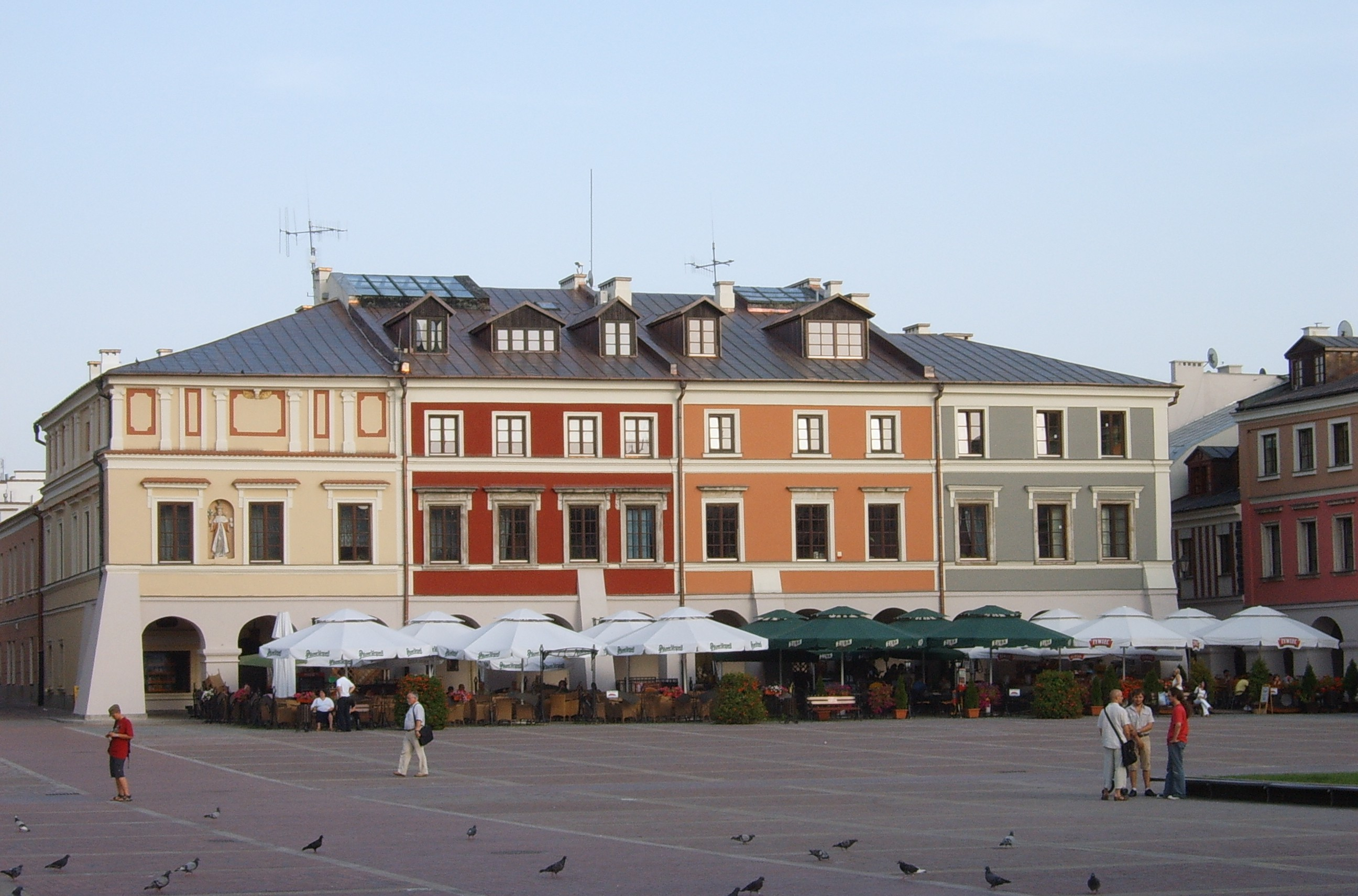 Zamość, tenements in Great Market - eastern side